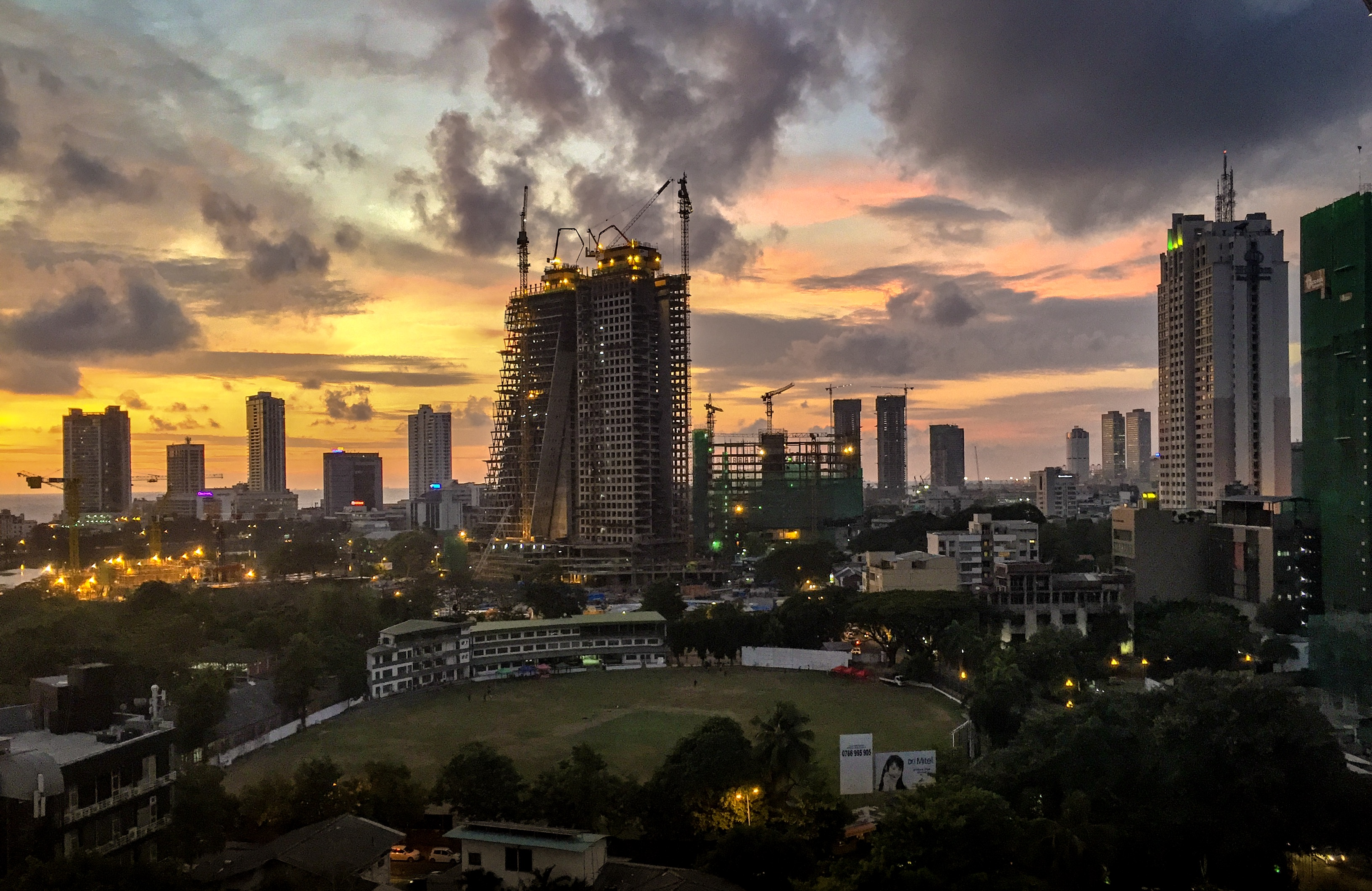 Altair under construction. October 2016.